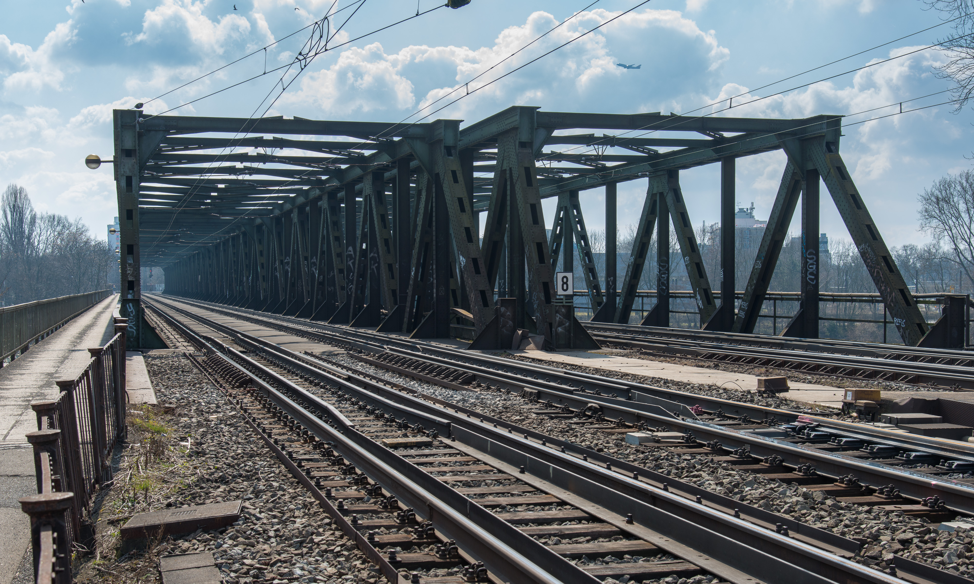 Frankfurt am Main, Main Neckar Bridge (Main-Neckar-Brücke) from the northern side at track level.